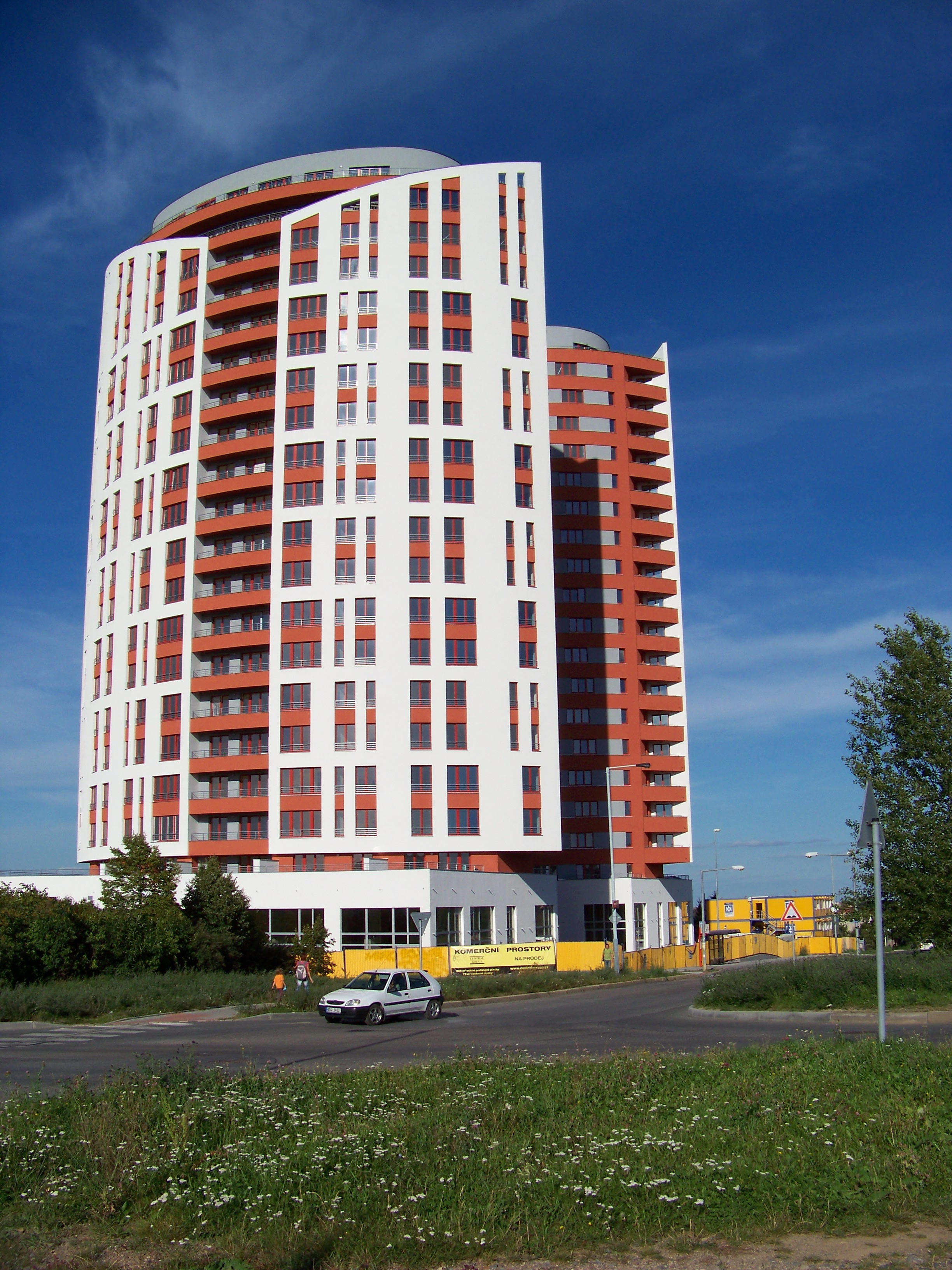 Prague-Stodůlky-Ohrada, the Czech Republic. Rezidence Prague Towers. - OpenStreetMap(Info)